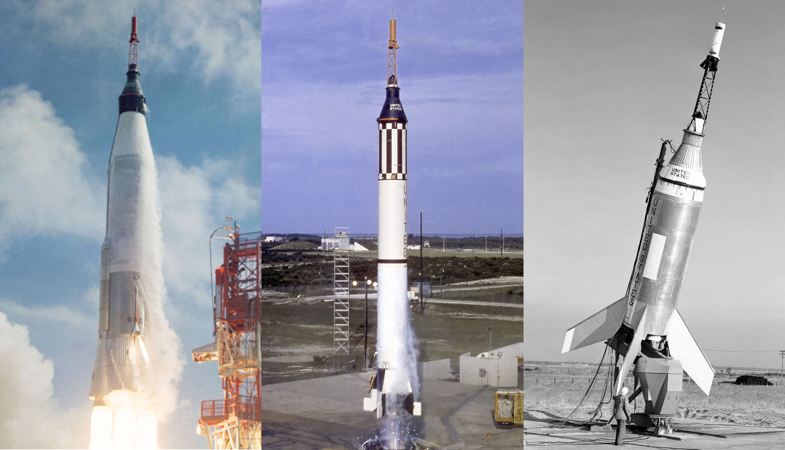 Derived from File:Little Joe Launch Vehicle cropped.jpg, File:Mercury-Redstone 4 Launch cropped.jpg and File:Mercury-Atlas 3 launch - cropped2.jpg